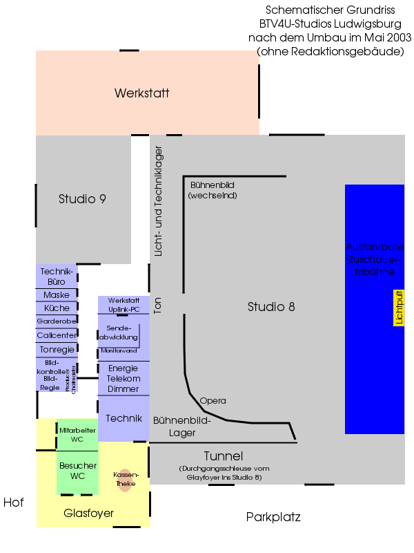 Schematic ground plan of BTV4U-Studios Ludwigsburg after modification in May 2003